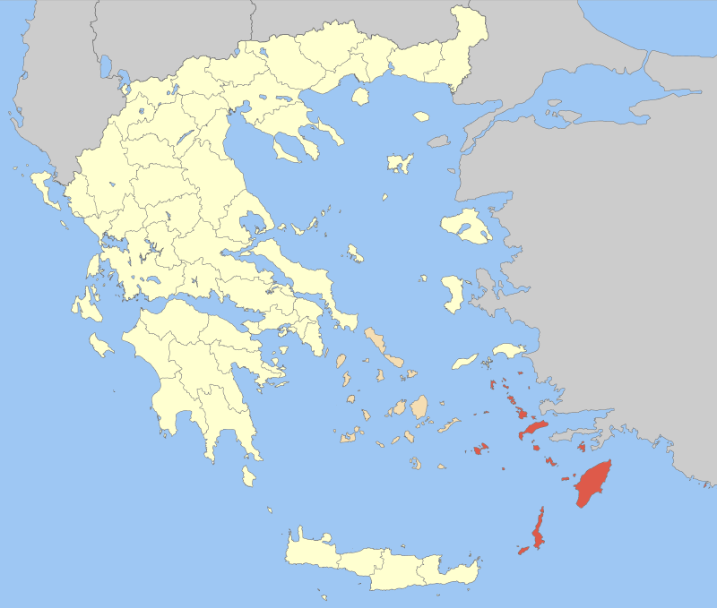 Locator map of Dodecanese prefecture (Νομός Δωδεκανήσου) in Greece